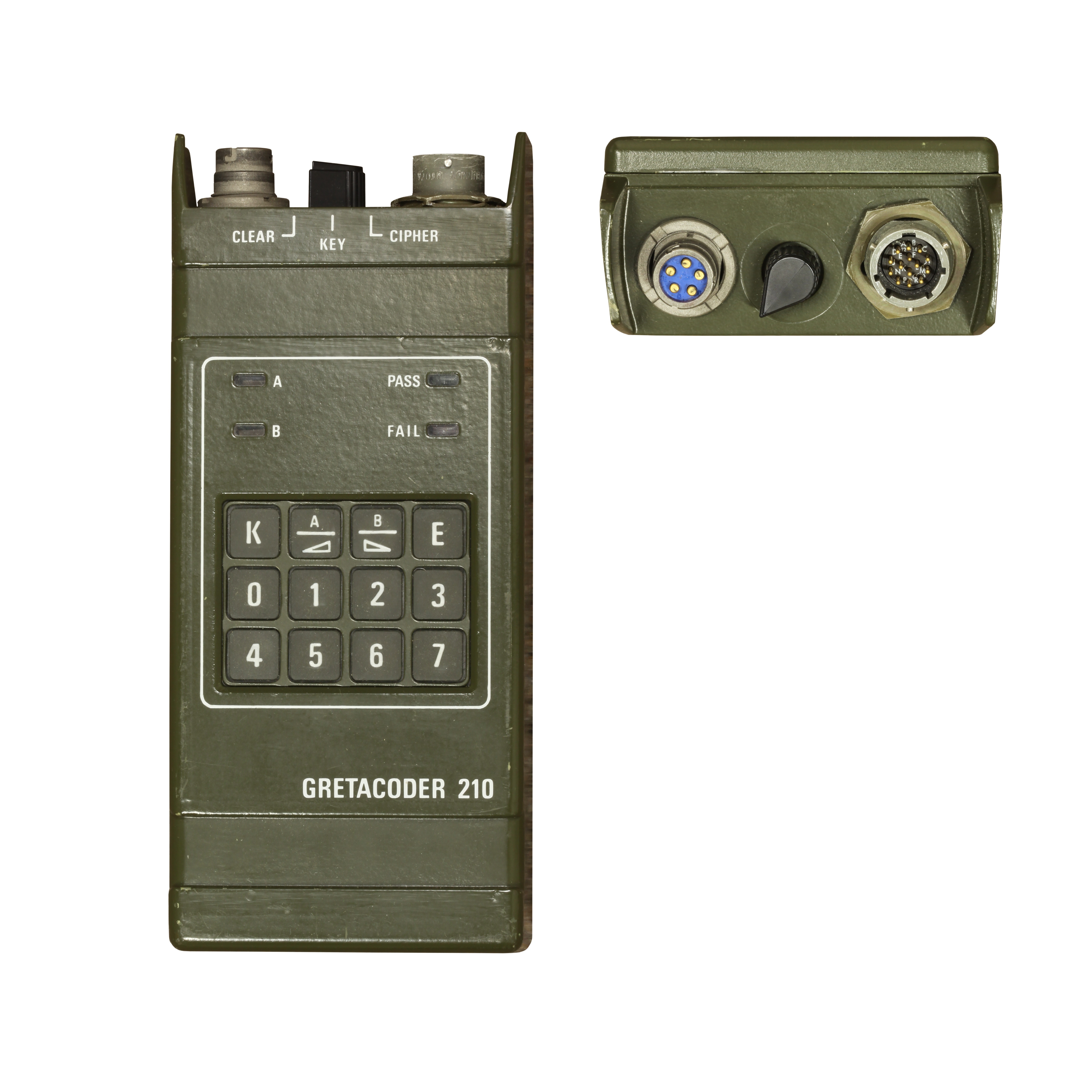 Gretacoder 210. Cryptography collection of the Swiss Army headquarters The making of this document was supported by Wikimedia CH. (Submit your project!) For all the files concerned, please see the category Supported by Wikimedia CH.